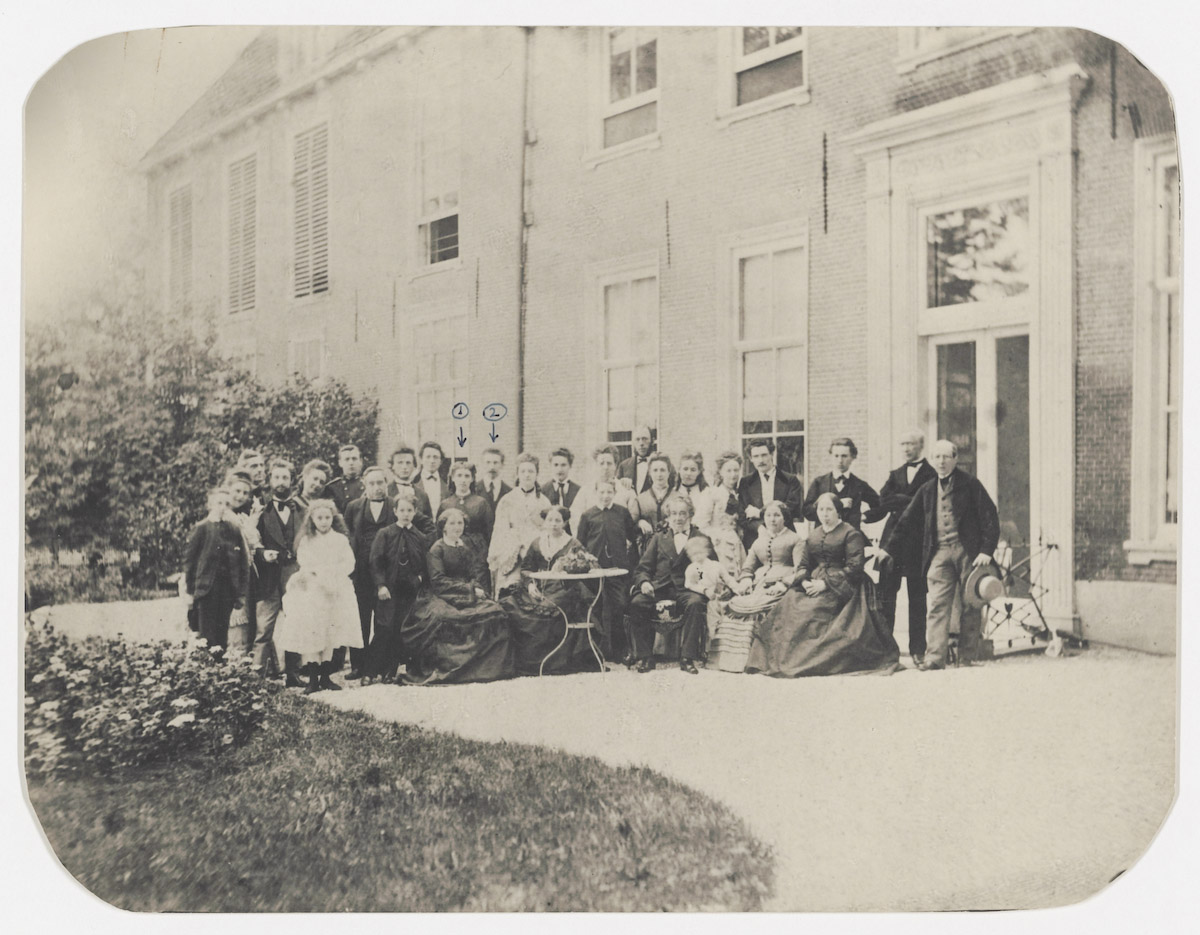 A photograph of a group celebration of the 80th birthday of Johannes Andricus Stricker, a great uncle of Vincent van Gogh, taken in August 1872 at the Huis te Hoorn, Rijswijk, The Hague (b 5348 V/1995 (foto), Brieven en Documenten, Van Gogh Museum). According to Naifeh and Smith (2011) p. 76 note 180 Vincent, his brother Theo, cousin Kee Vos and youthful love interest Caroline Haanebeek were all present in the group photo. See also: Cassee, Elly. "In Love: Vincent van Gogh's First True Love." Van Gogh Museum Journal, 1996, pp. 108-17. This is another photo of Kee Vos with her son.